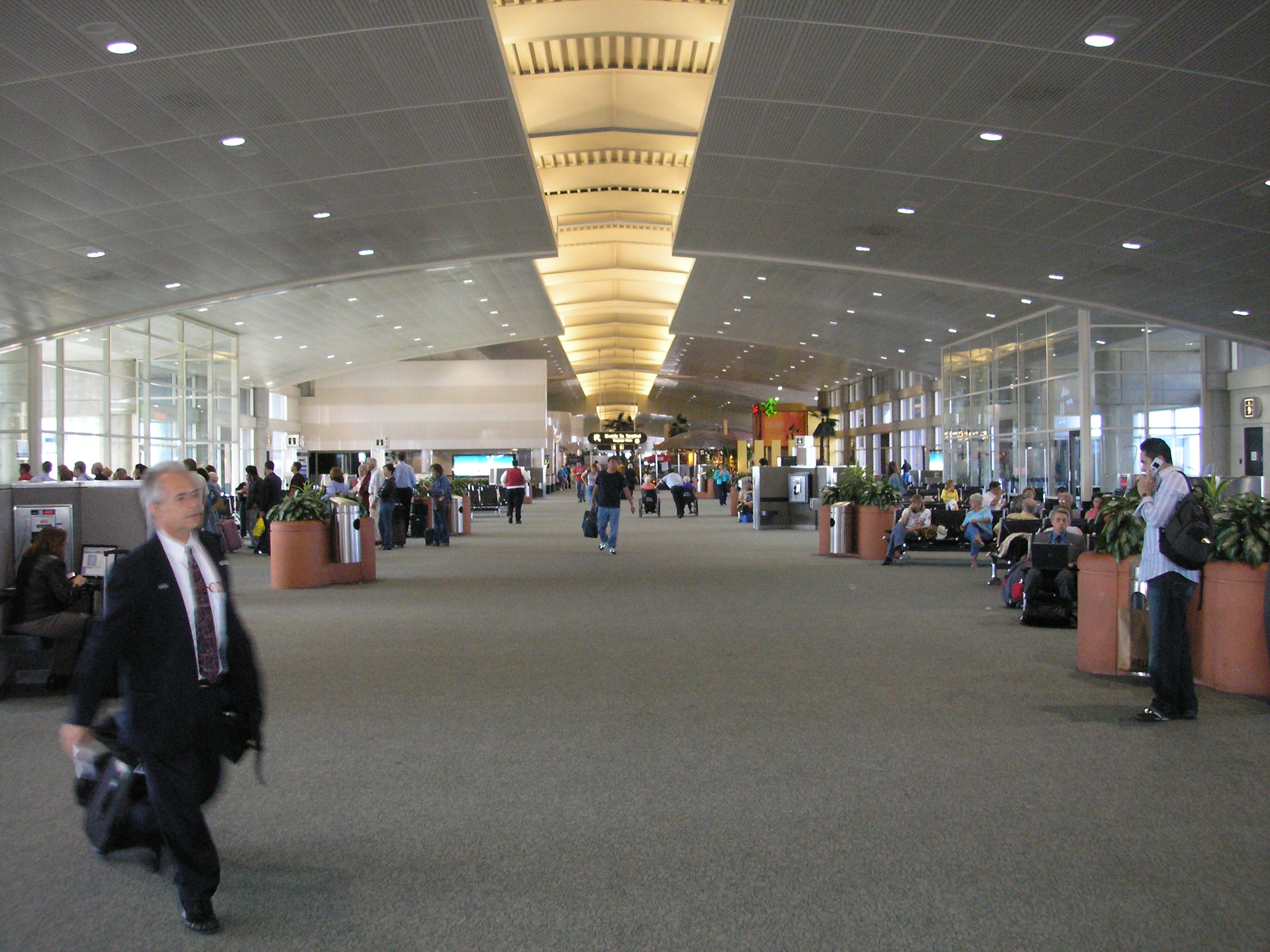 Boarding waiting area at Tampa International Airport, Tampa, Florida